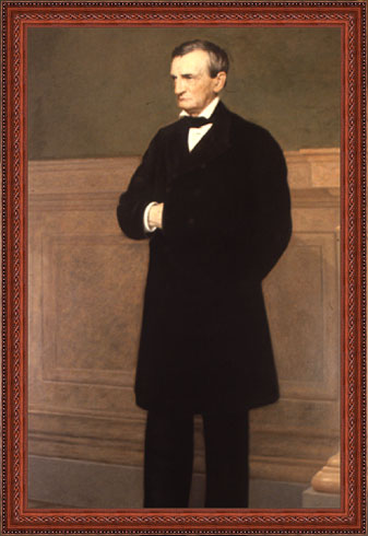 From The Historical Society of the Courts of the State of New York